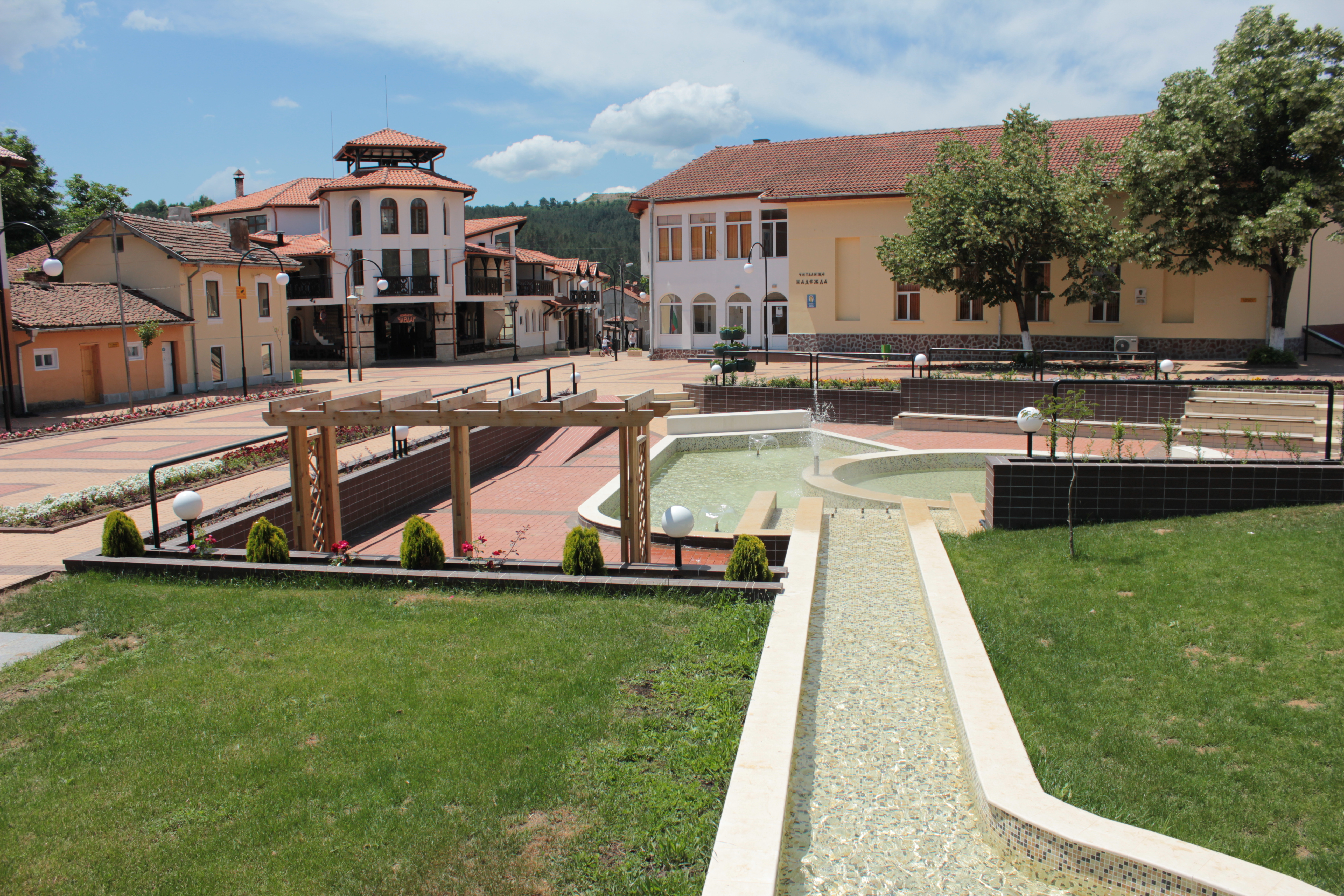 Nadezhda memorial chitalishte (right) and a restaurant (left) in Chavdar, Sofia Province, Bulgaria